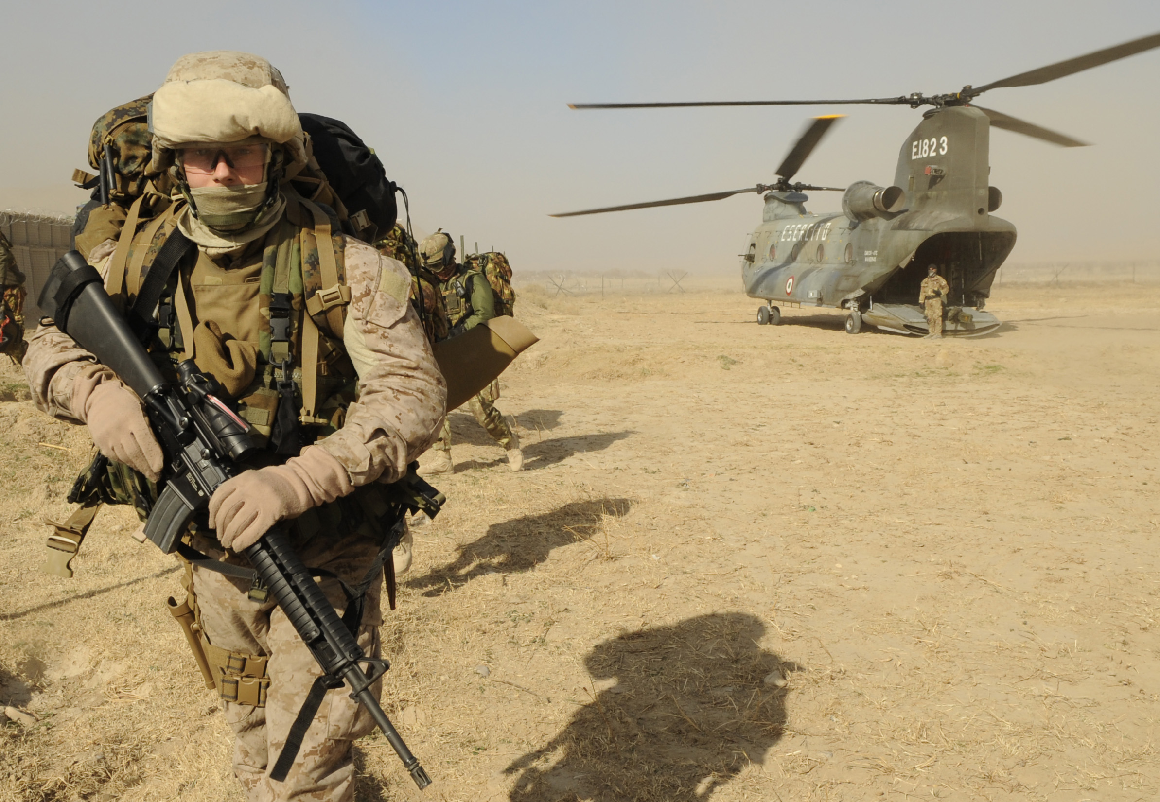 BALA MURGHAB, Afghanistan--U.S. Marine Corps Sergeant Kevin Healy exits an Italian Army CH-47 Chinook helicopter during an International Security Assistance Force (ISAF)mission, Nov. 30. ISAF is assisting the Afghan government in extending and exercising its authority and influence across the country, creating the conditions for stabilization and reconstruction. (ISAF Photo by TSgt Laura K. Smith)(released)